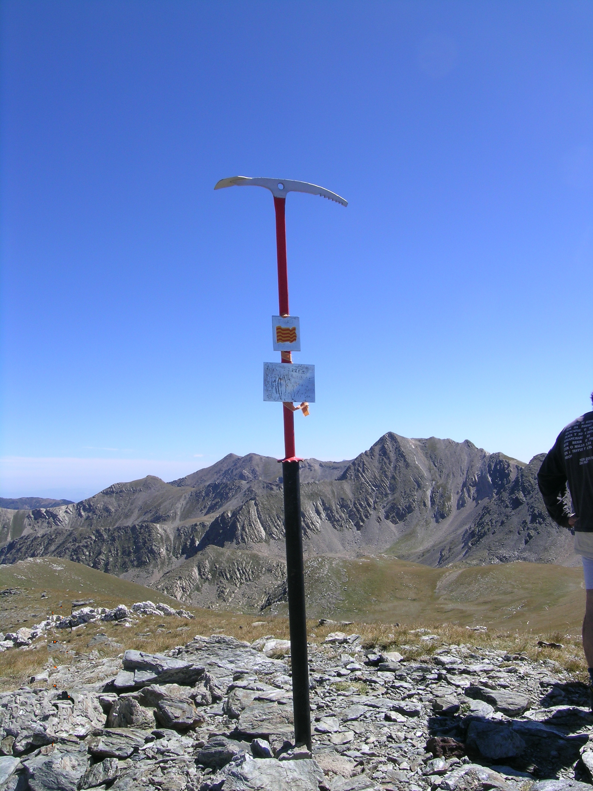 Pic de la Fossa del Gegant Summit (2807,7 msnm) - (Ripollès)